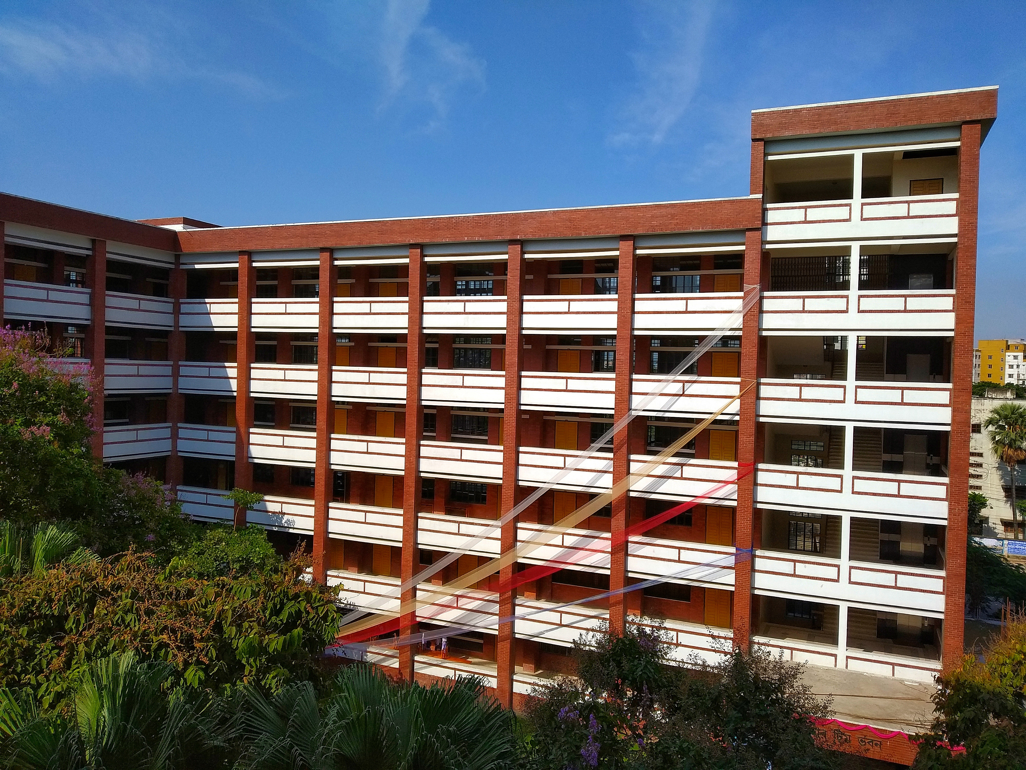 notre dame college dhaka